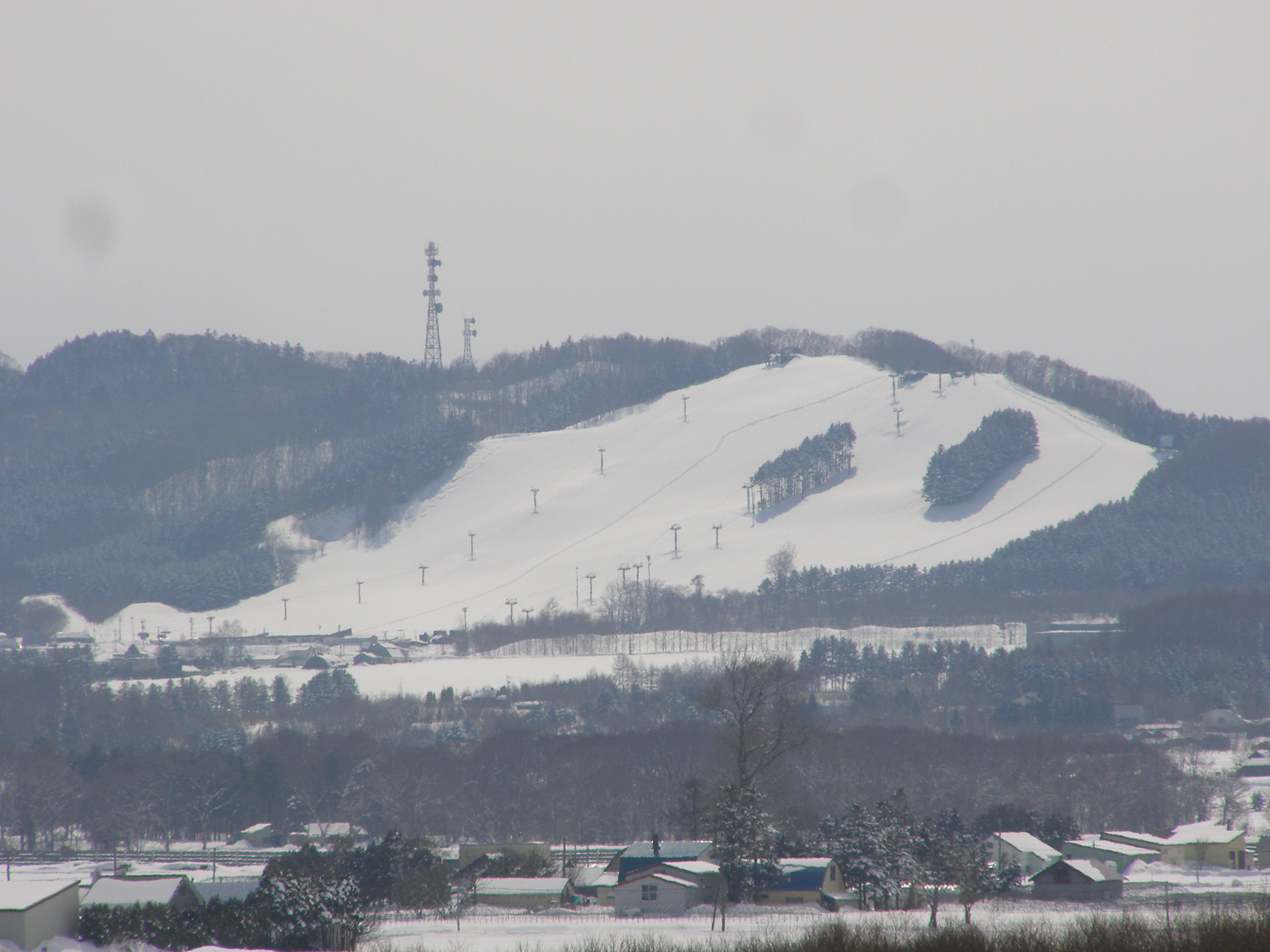 distant view of Naganuma Ski aria（filming location is Kurisawa in Iwamizawa city, Hokkaido, Japan.）